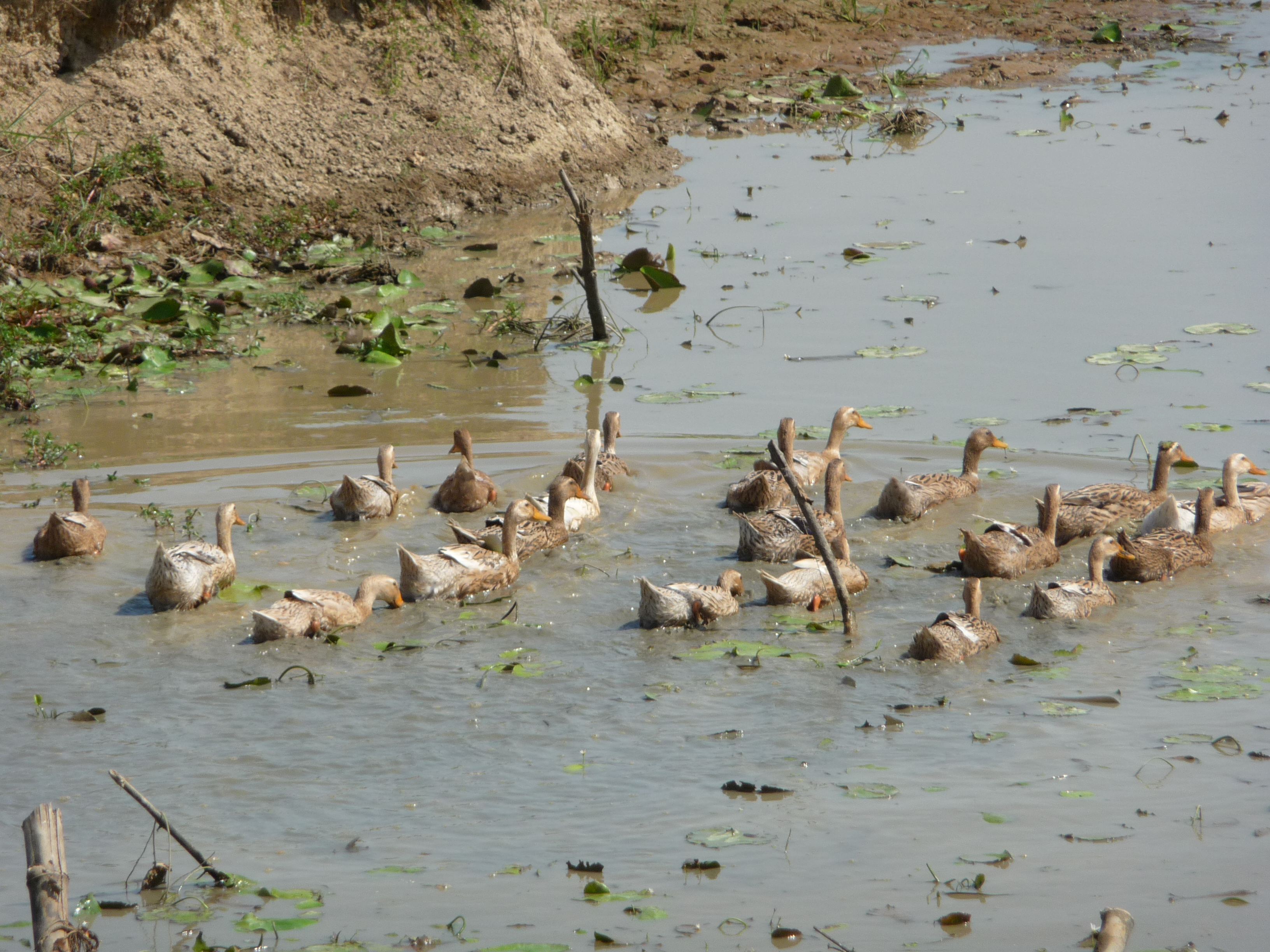 Farming. Vietnam 2010. Photo: AusAID